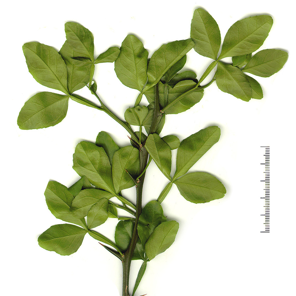 Poncirus trifoliatus leaves